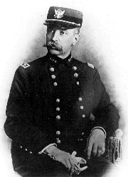 Brigadier General William Ludlow at the time of the Spanish-American War.